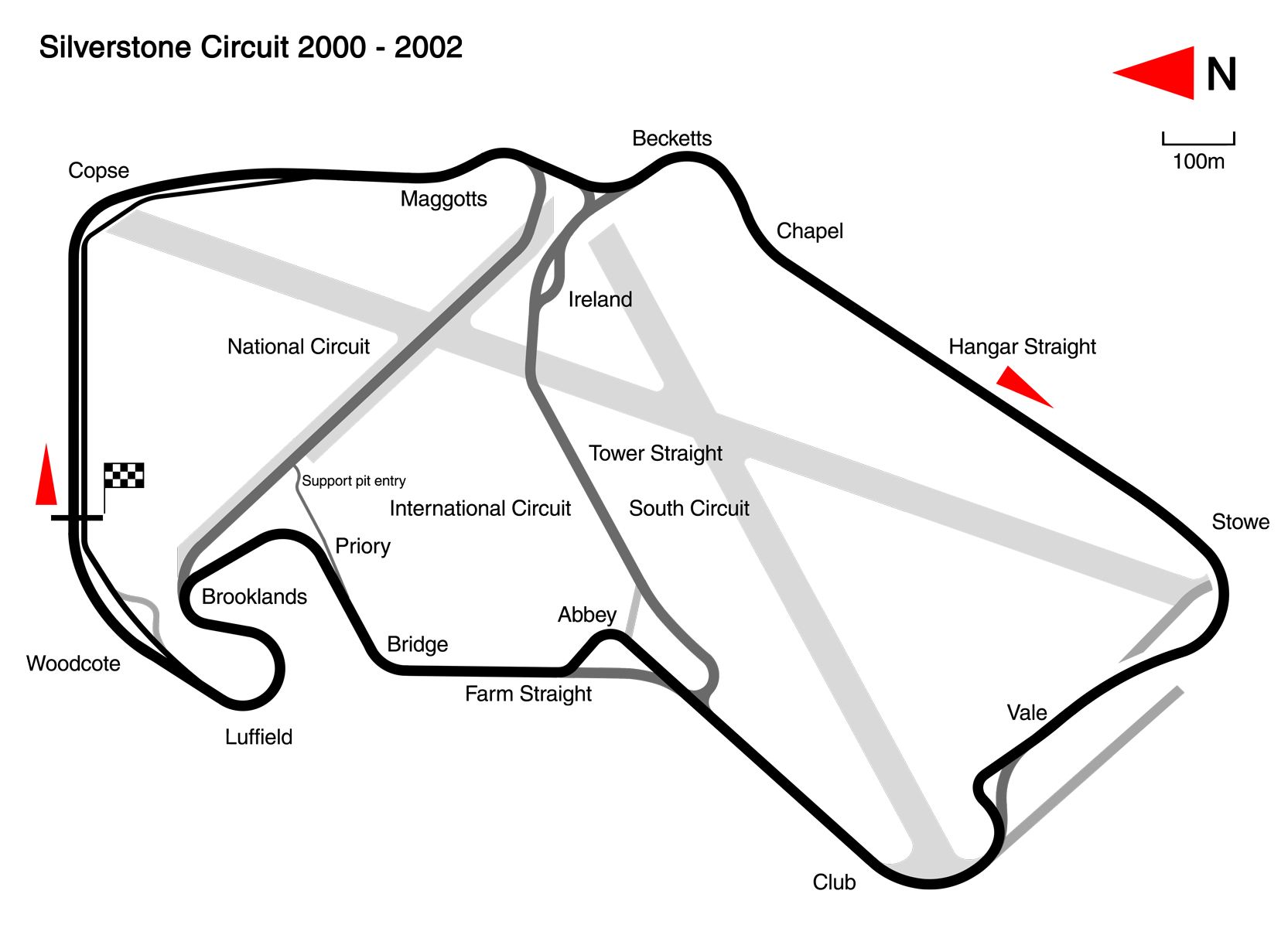 Track diagram of Silverstone Circuit in the UK in 2000 to 2002 configuration. Made to scale from aerial photographs.